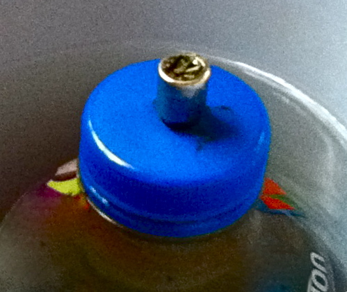 The lid of a gravity bong's bottle, loaded, and screwed onto the bong.